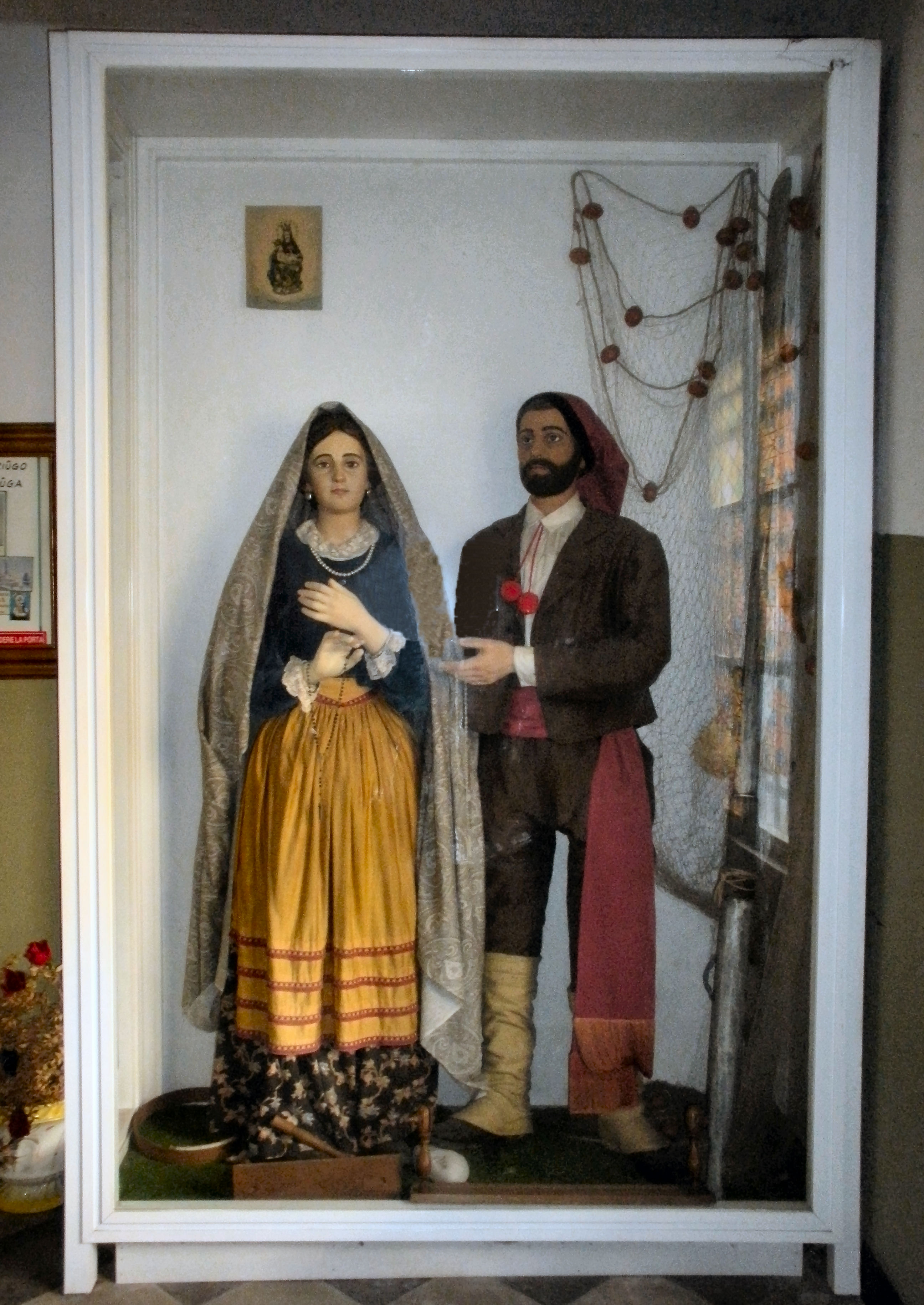 Genoa, Cornigliano (Italy). The puppets depicting Pacciugo and Pacciuga in the shrine of N.S. Incoronata